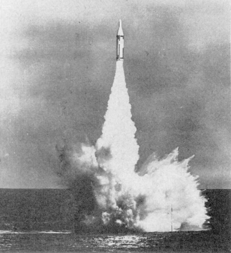 The nuclear-powered submarine U.S.S. George Washington fires a second POLARIS missile to its target. Extended above the surface to the right is a temporary radio antenna tower, used to receive telemetered data from the test missile. Neither the antenna nor the smoke marker tcould be used in operational launchings. On July 20, 1960, U.S.S. George Washington, first of the fleet ballistic missile submarines, was commissioned December 30,1959, and, after preliminary tests with inert models, successfully performed flight tests of the prototype tactical POLARIS missile, off Cape Canaveral, Fla.